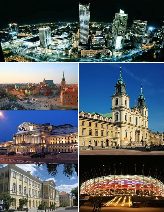 Montage of Warsawa, Poland.